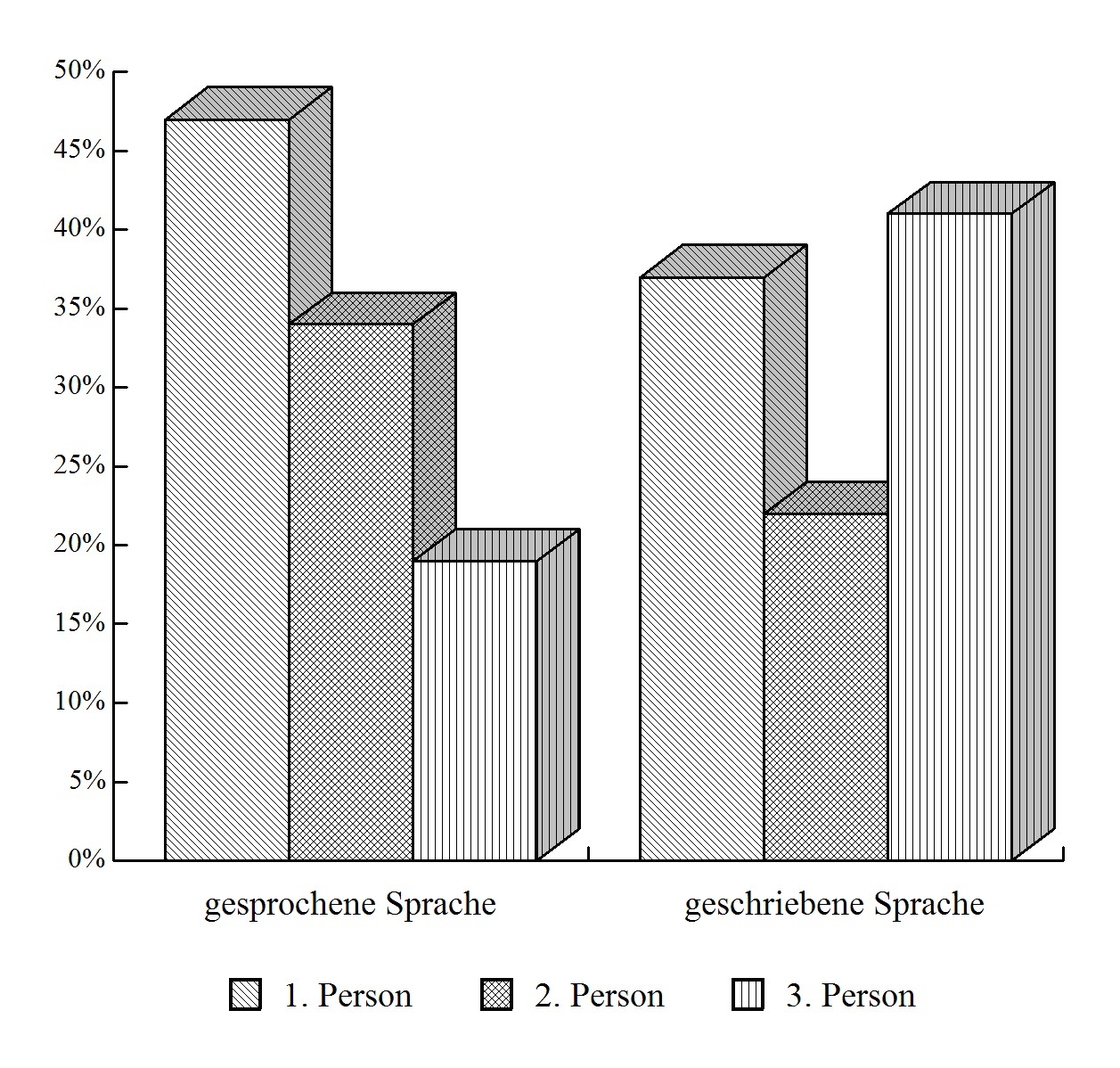 Frequency of personal pronouns in Serbo-Croatian from Snježana Kordićʼs book Wörter im Grenzbereich von Lexikon und Grammatik im Serbokroatischen, Munich 2001, diagram on p. 12 or its Serbo-Croatian translation: Riječi na granici punoznačnosti, Zagreb 2002, diagram on p. 13